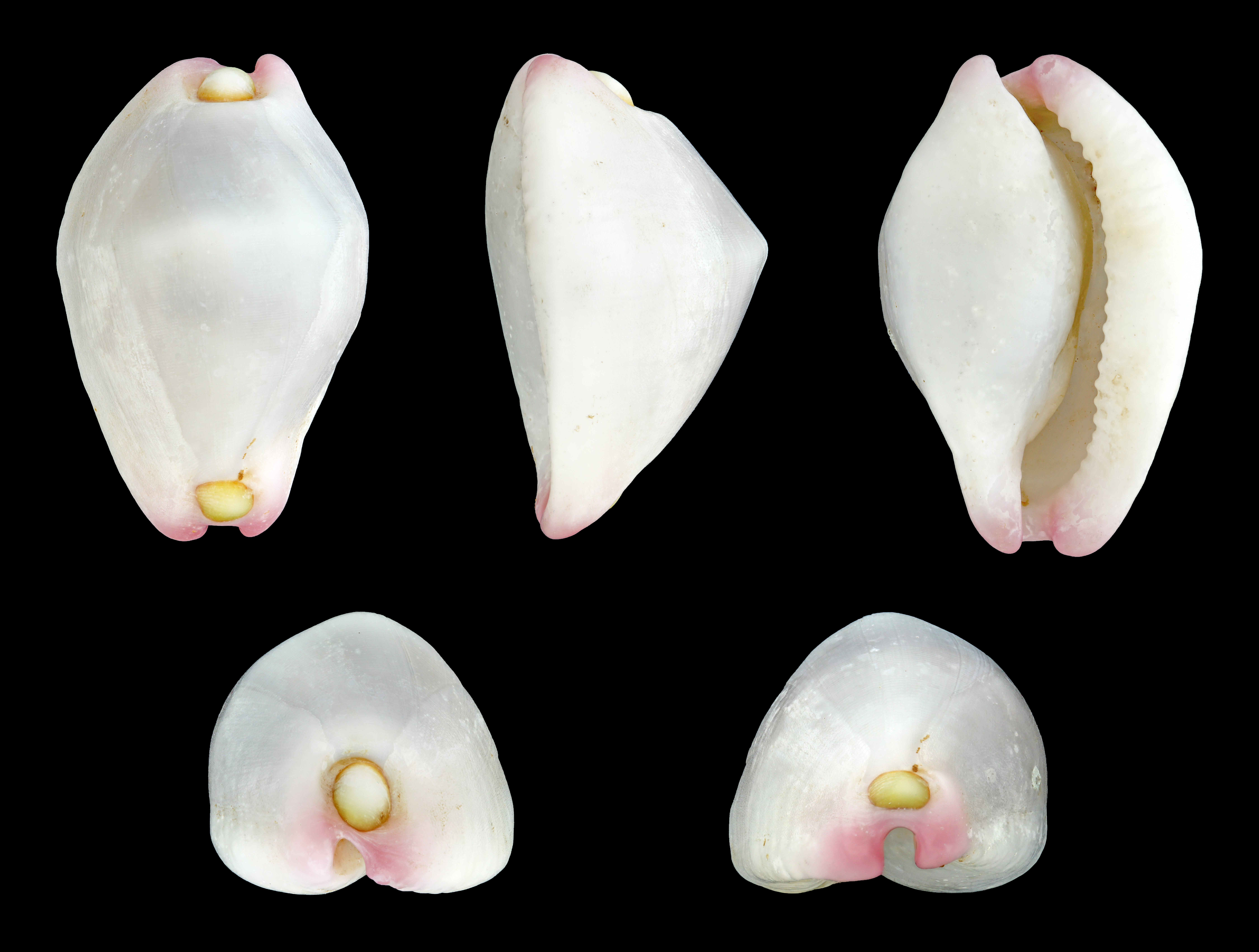 Umbilical Egg Shell; length 2.7 cm; Originating from Bohol, Philippines; Shell of own collection, therefore not geocoded. Dorsal, lateral (right side), ventral, back, and front view.